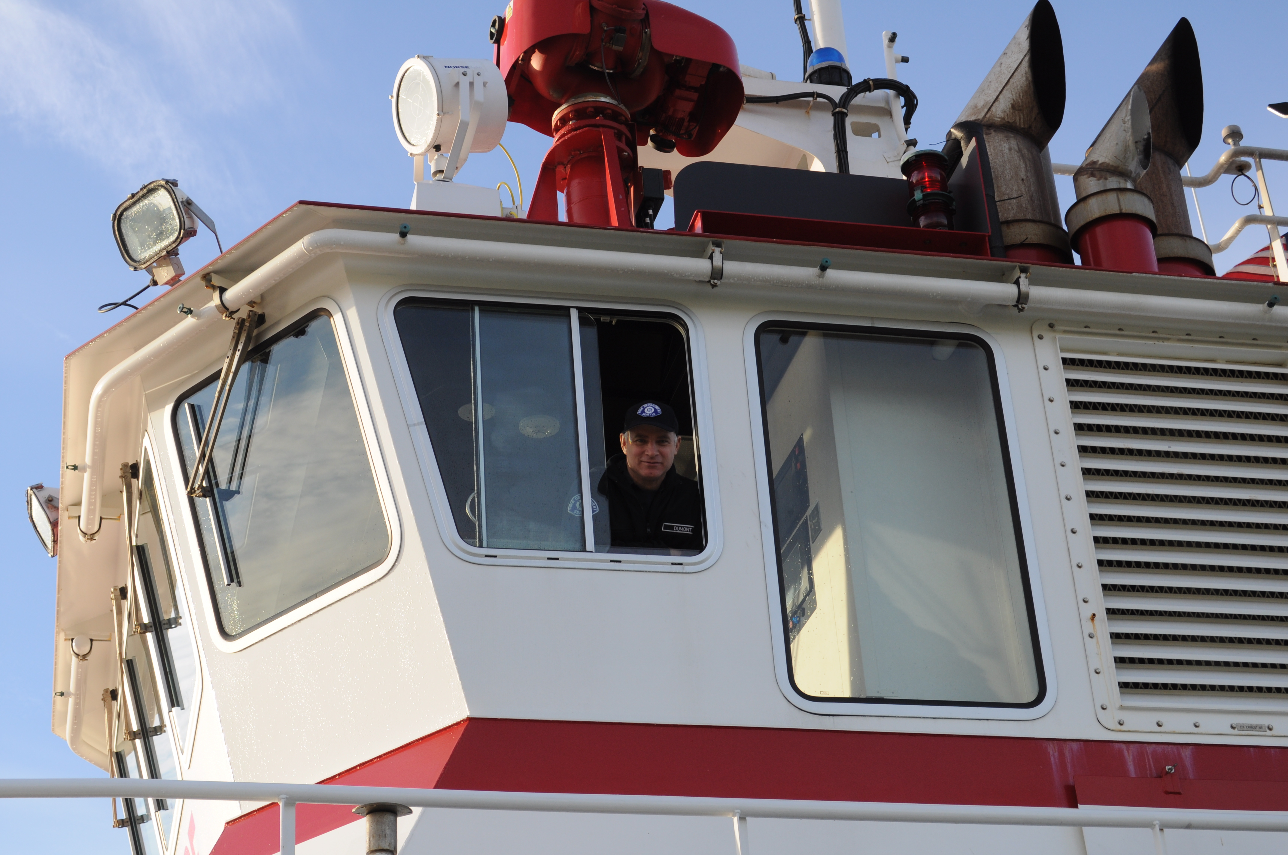 Seattle fireman Kevin Dumont on the Fireboat Leschi, visiting Historic Ships Wharf outside the former Naval Reserve Building, South Lake Union, Seattle, Washington during a memorial for Battalion Chief David H. Jacobs, Jr.